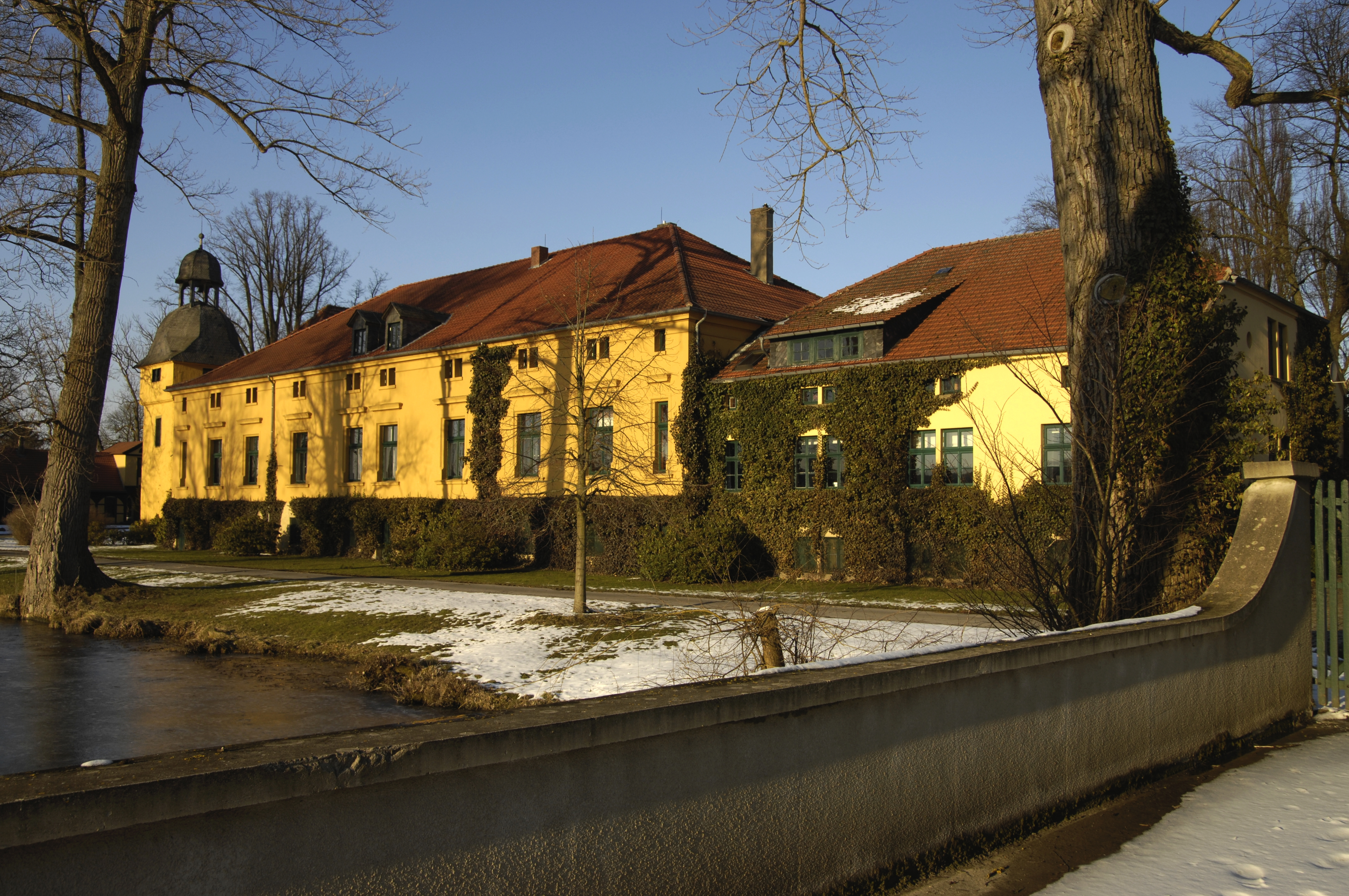 This is the photograph of an architectural monument. It is part of the list of cultural monuments of Rödinghausen, no. 5